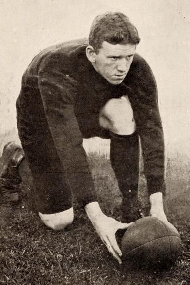 Photograph of Harold McLennan from the 1910 Weekly Times Victorian Footballer Postcard Series